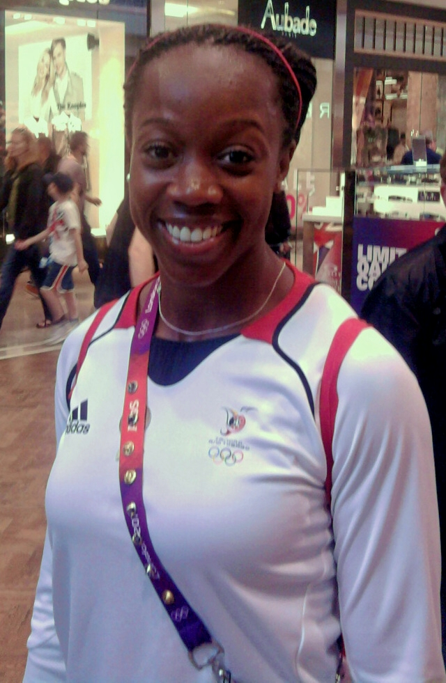 Trinidadan track and field sprint athlete Kelly-Ann Kaylene Baptiste at The London 2012 Summer Olympic Games